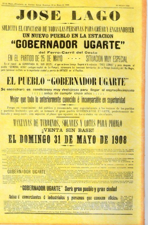 Notice of Listing Requested Village, Gobernador Ugarte, Argentina, 1908